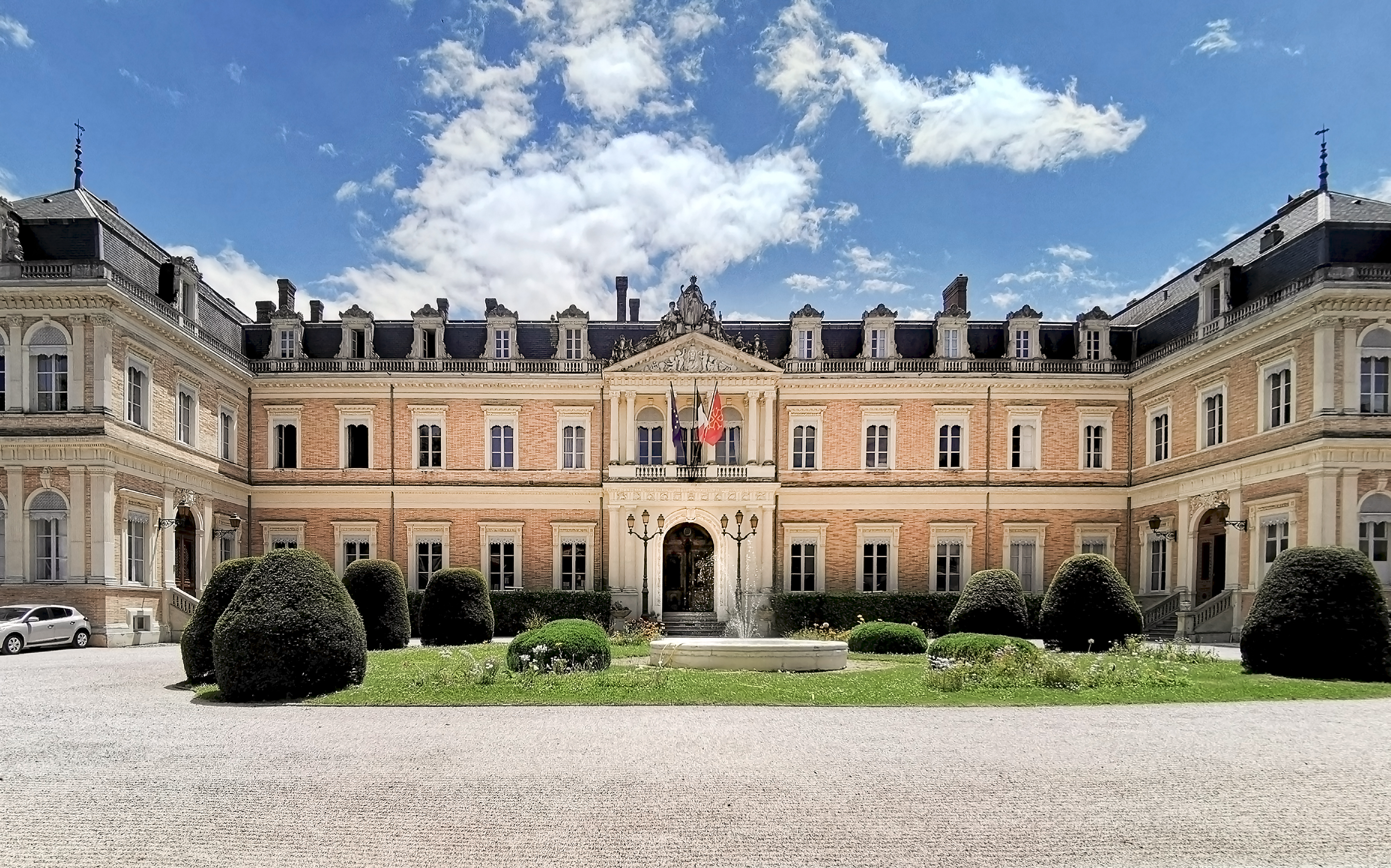 Main building. Elevation on the courtyard - Toulouse